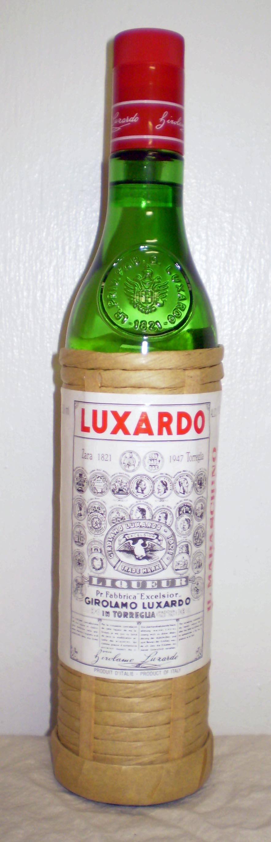 Bottle of Luxardo brand Maraschino liqueur